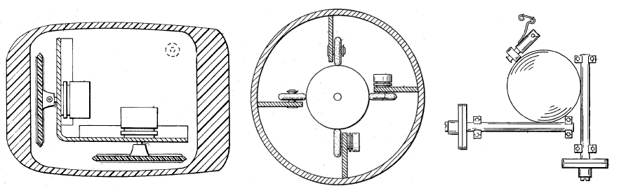 Early mouse patents. (left to right) Opposing track wheels by Englebart, 11/70, 3541541. Ball and wheel by Rider, 9/74, 3835464. Ball and two rollers with spring by Opocentsky, 10/76, 3987685.